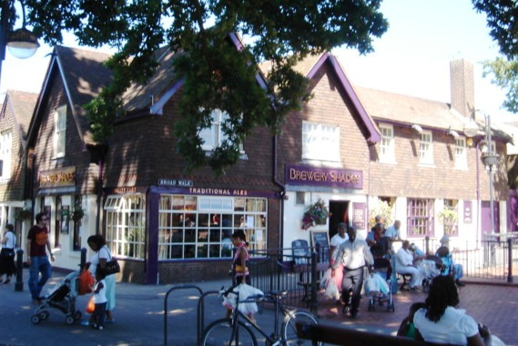 The Brewery Shades Inn, High Street, Crawley, West Sussex, England. 15th-century building with extensions in the 17th, 18th and 19th centuries. Listed at Grade II by English Heritage (ref #363349)